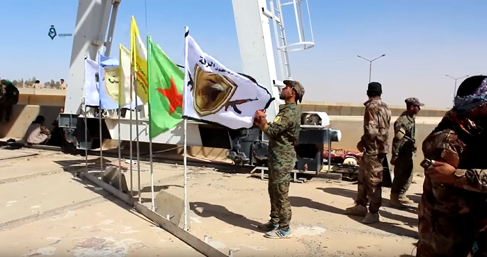 SDF flags after the capture of most of Tabqa Dam.